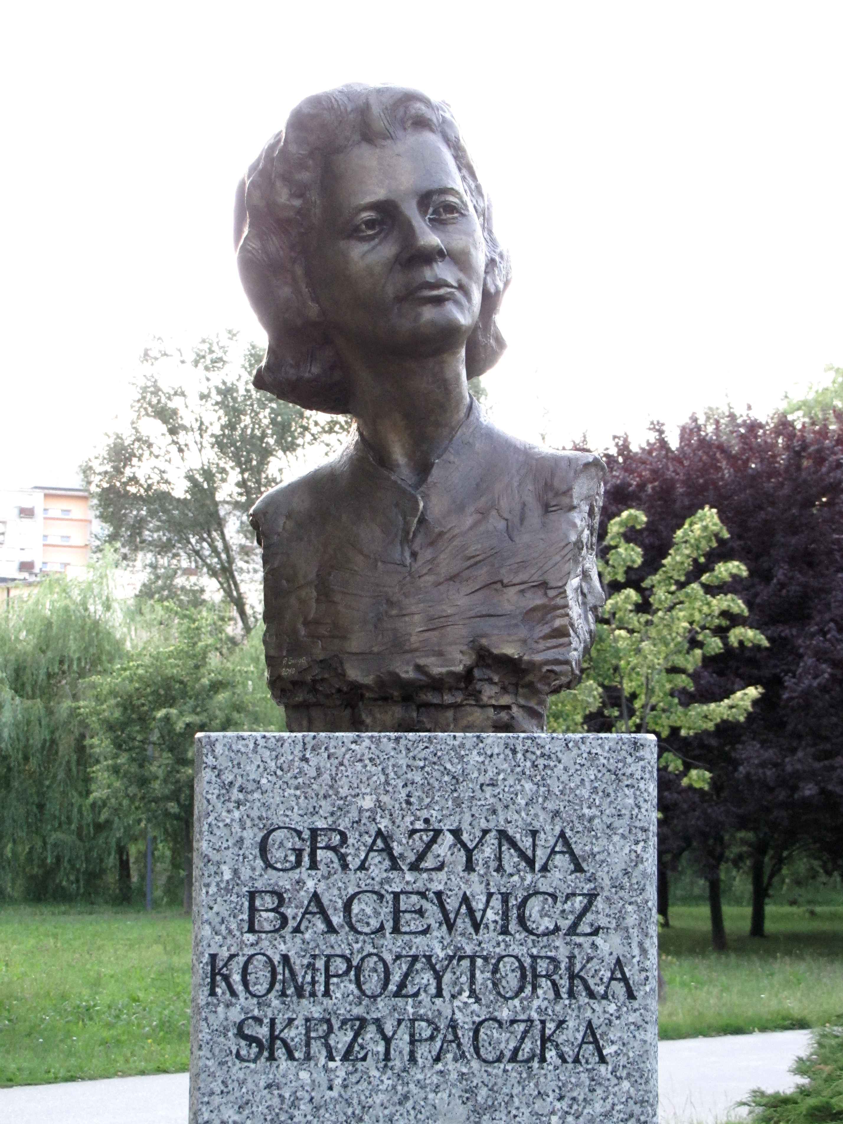 Bust of Grażyna Bacewicz in Celebrity Alley in Kielce (Poland)